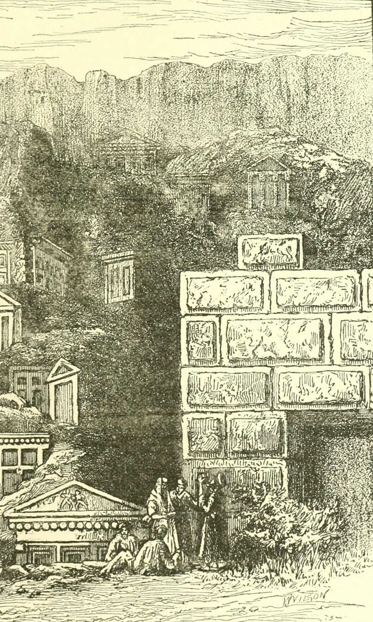 Title: Media, Babylon and Persia : including a study of the Zend-Avesta or religion of Zoroaster, from the fall of Nineveh to the Persian war Year: 1889 (1880s) Authors: Ragozin, Zénaïde A. (Zénaïde Alexeïevna), 1835-1924 Subjects: Zoroastrianism Iran -- History Babylon (Extinct city) -- History Publisher: London : T. Fisher Unwin New York : G.P. Putnam's Sons Text Appearing Before Image: l8. LYCIAN RO( Text Appearing After Image: S AT MYRA. Face page 190. LYDIA AND ASIA MINOR. 191 ends of the beams that run through the building ;the copy is perfect in every detail ; thus where aclosed door is represented, not only arc the panelsindicated, but frequently the nails also that studdedthe original; even the knocker. (See ill. 19.) Onedoor, or, if large, part of one, is left open, to serve as